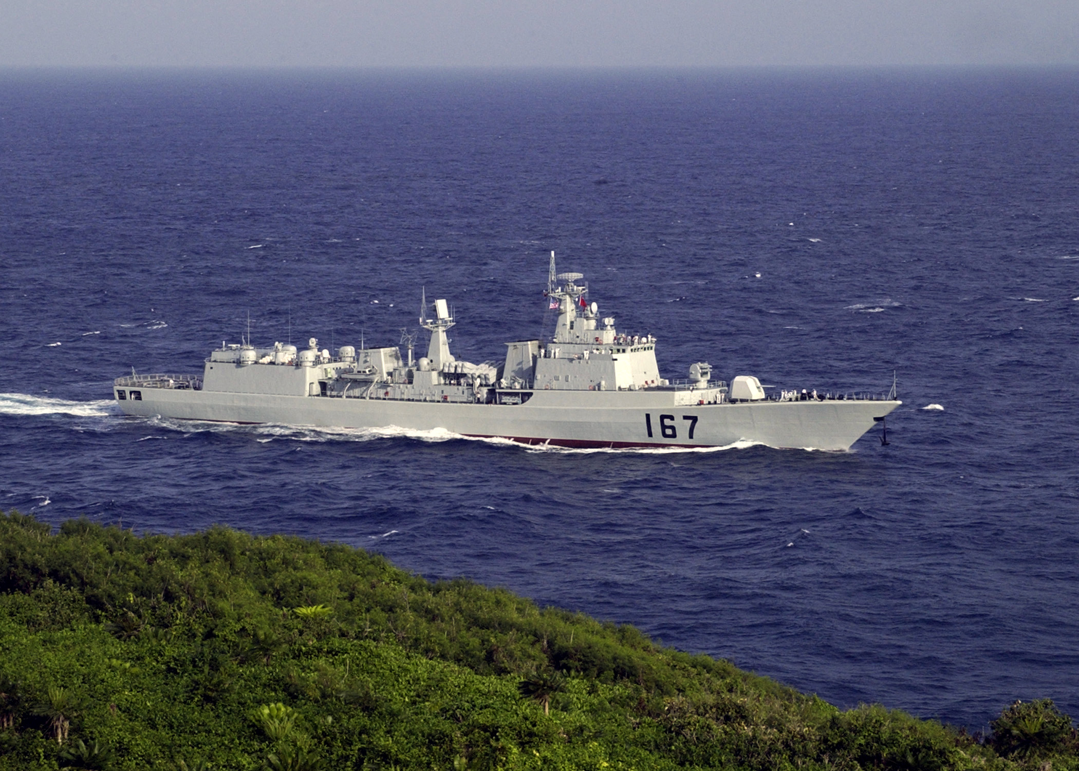 Santa Rita, Guam (Oct. 22, 2003) — The People's Liberation Army Navy (PLAN) guided missile destroyer Shenzhen (DDG-167) enters Apra Harbor, Guam. The Shenzhen and the oiler Quinghai Hu (AO-885) are making the People's Republic of China's first ever port call to Guam.